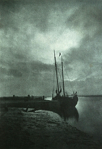 Abend (en: Evening), a photograph by English landscape photographer Alfred Horsley Hinton (1863–1908). A very similar photograph, Requiem, was published in Hinton's 1898 book, Practical Pictorial Photography.